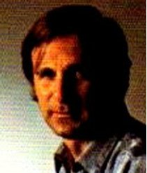 Eduardo Vittar Smith. Argentina. Pop/folk/jewish musician.